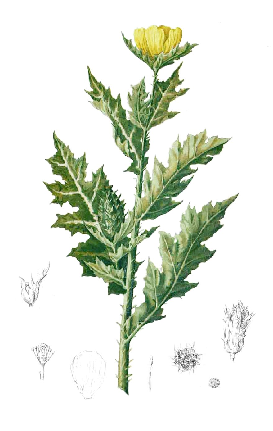 Plate from book